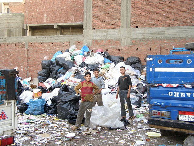 A Group of Boys at Moqattam Village